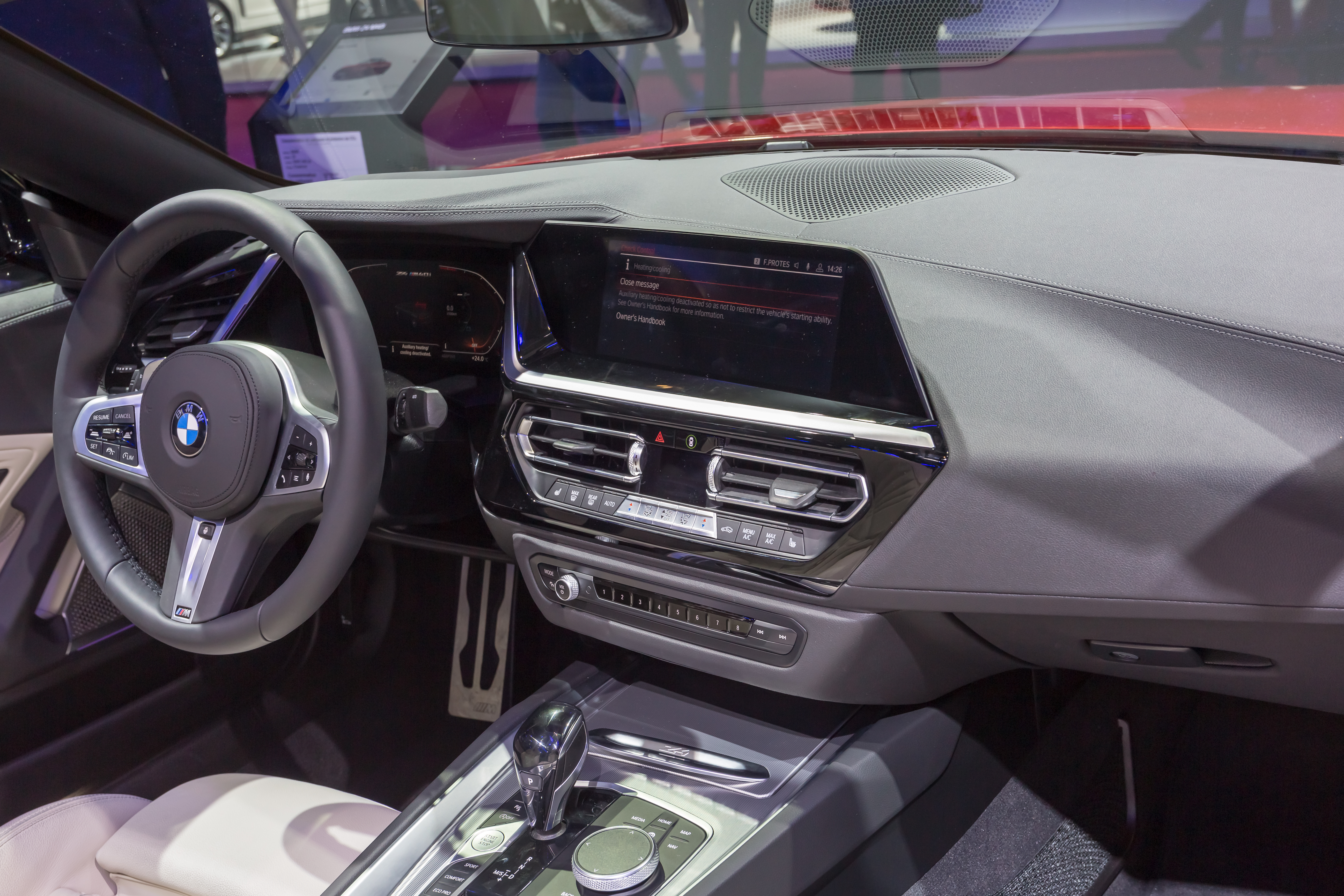 BMW Z4, Mondial Paris Motor Show 2018